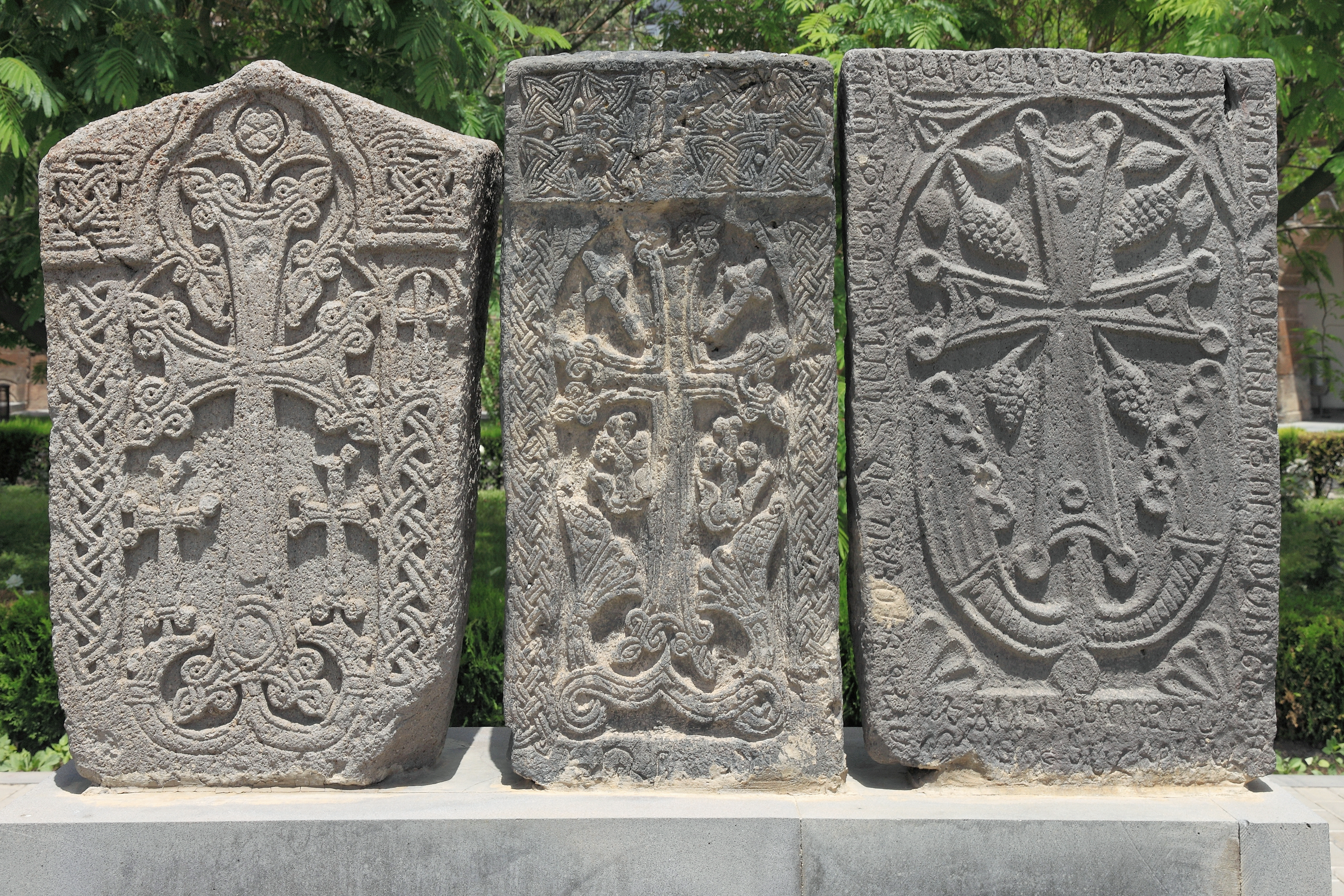 Three Khachkars in the courtyard in front of the Theological Seminary. Vagharshapat, Armavir Province, Armenia.